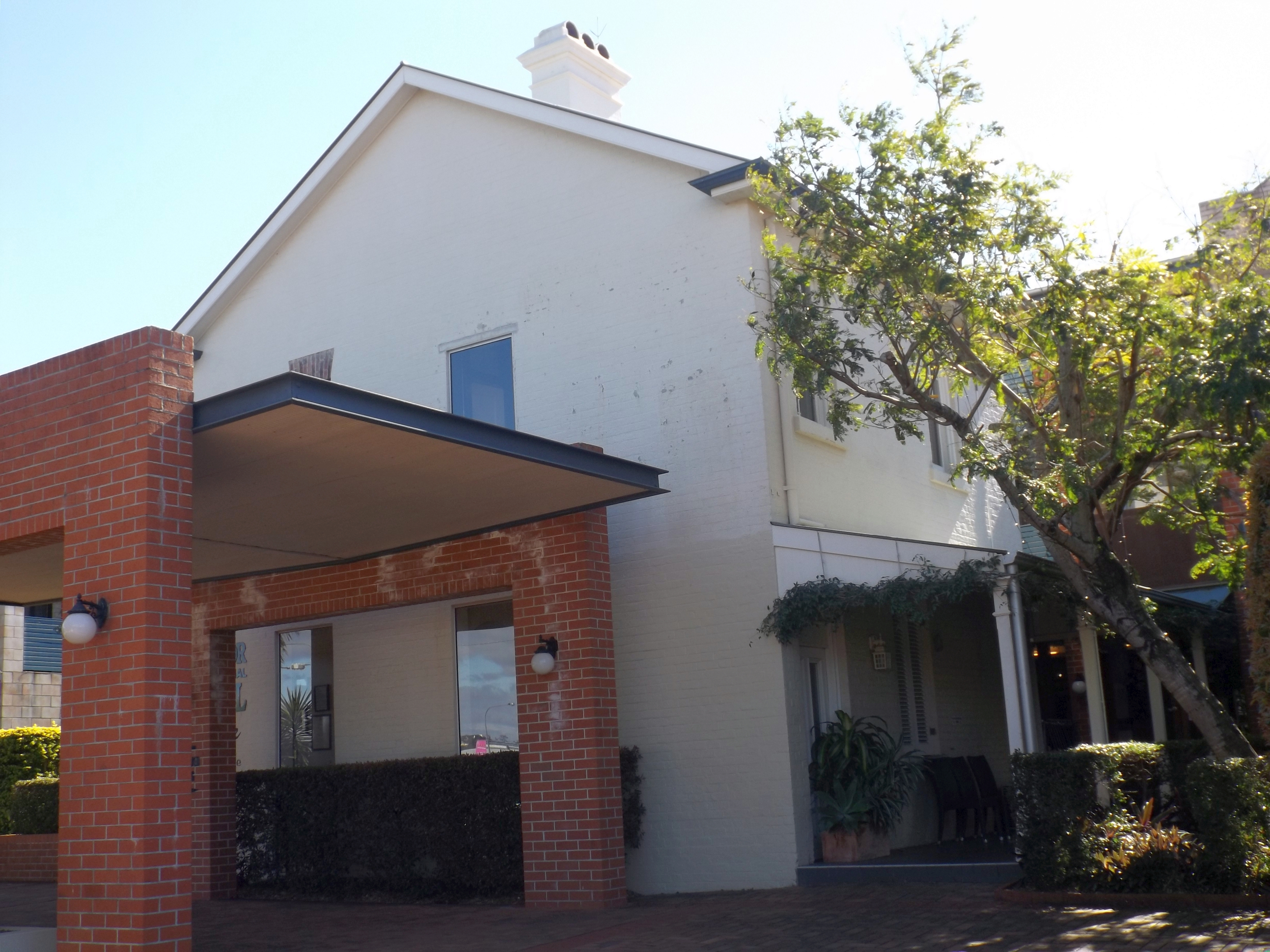 Photo of Skilmorlie in Windsor, Brisbane, Queensland, Australia. Site is part of a hotel building.